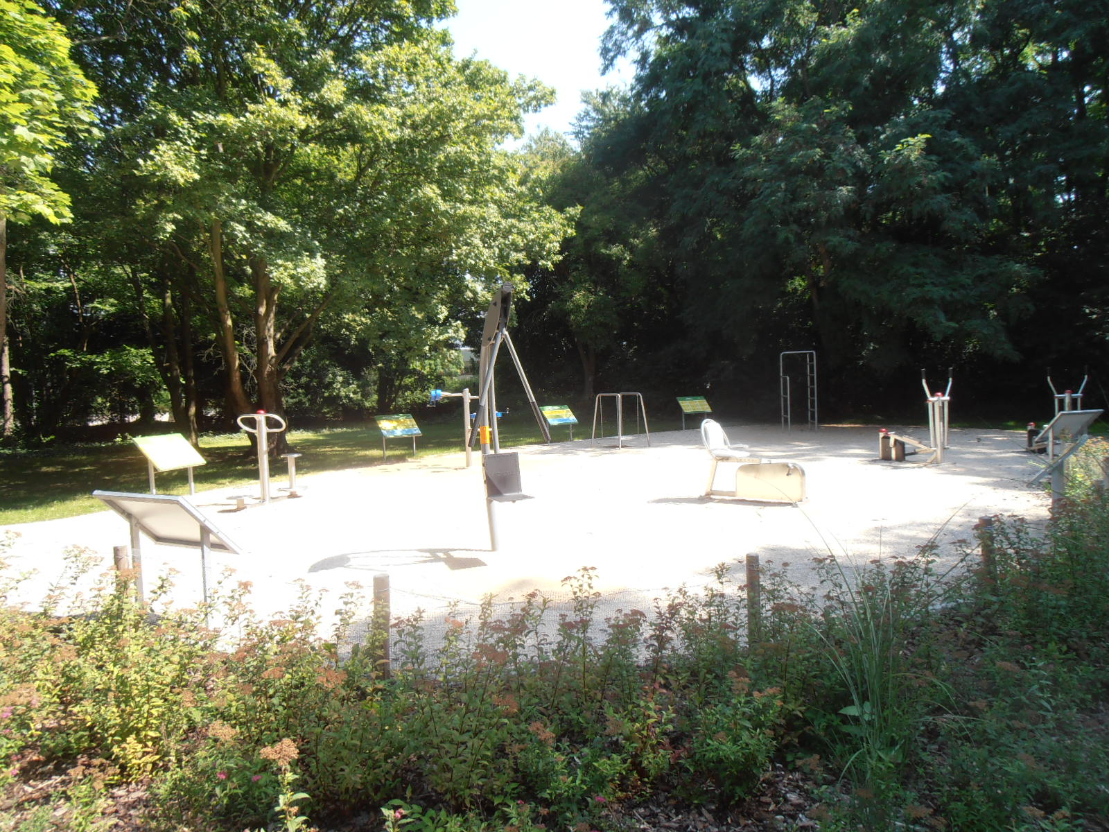 Snapshot: Elli-Lucht-Park impression, Niederrad